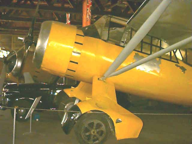 Westland Lysander at the Commonwealth Air Training Plan Museum, Brand, Manitoba, Canada, c. 2000.